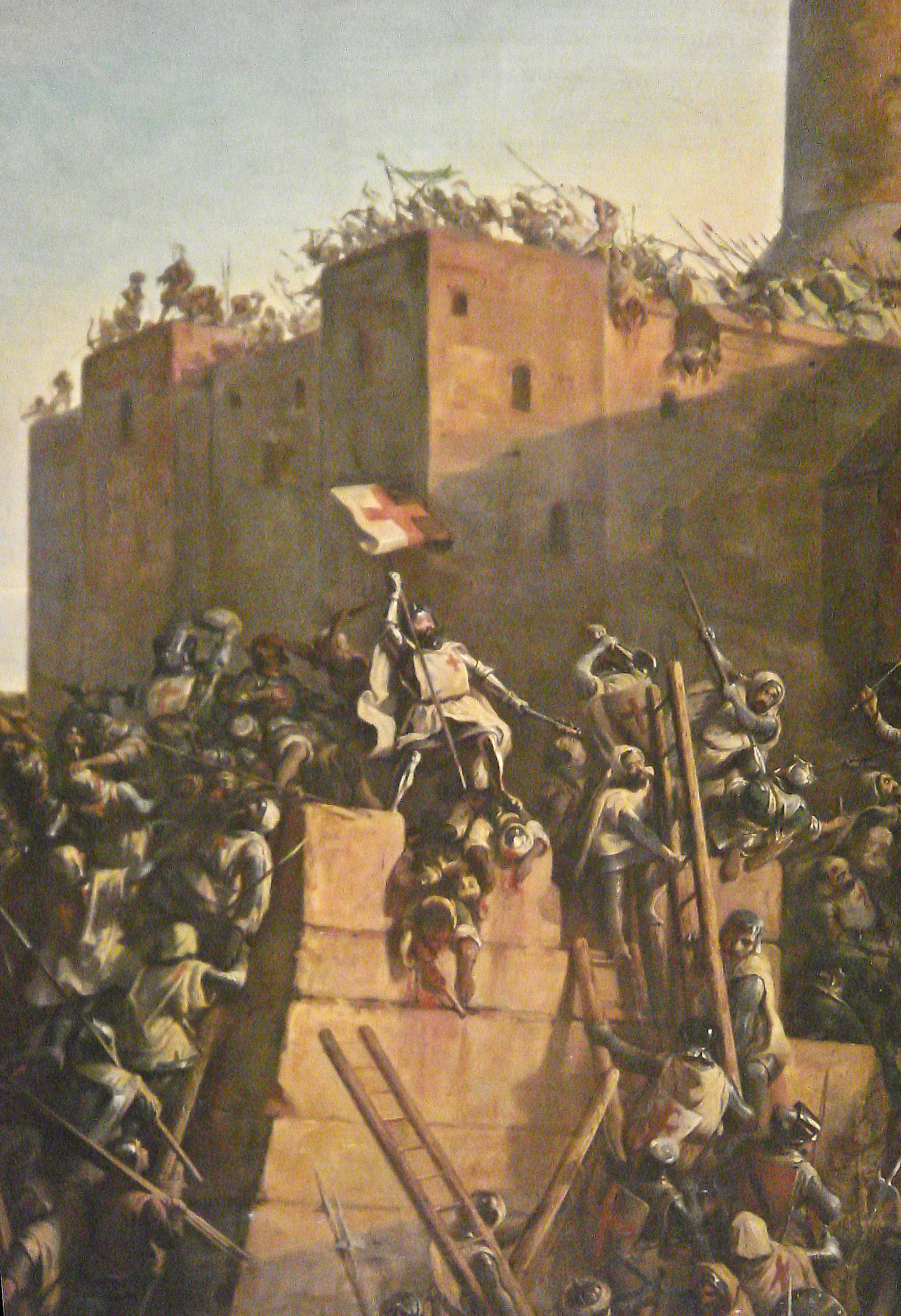 Jacques_de_Molay_Grand_Maitre_de_l_Ordre_du_Temple_prend_Jerusalem_1299_detail